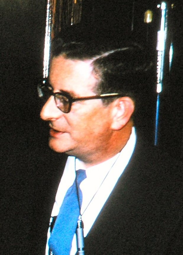 Portrait of Robert Burns Woodward